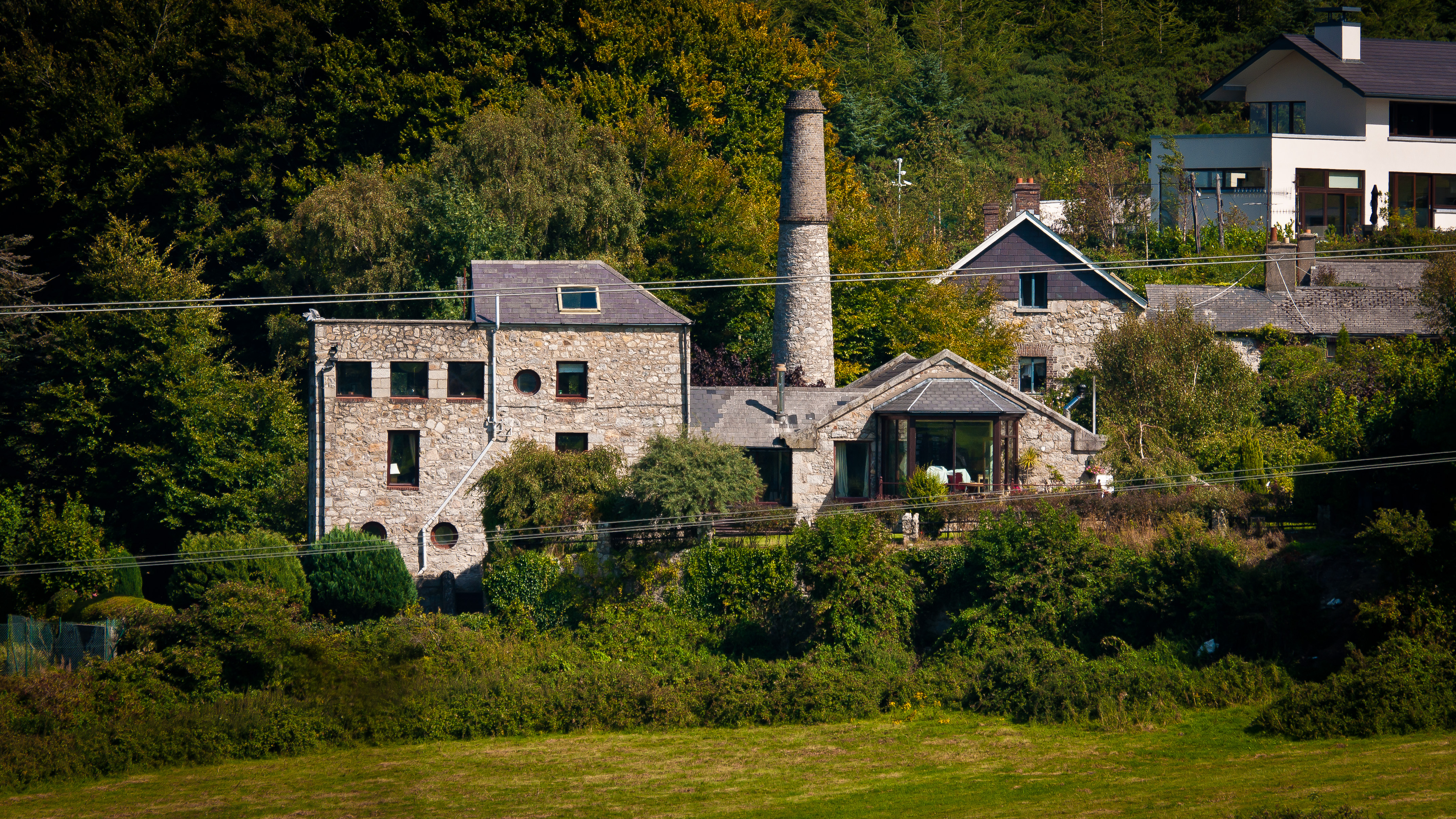 Buildings of the former leadworks at Ballycorus, County Dublin including a shot tower built in 1857